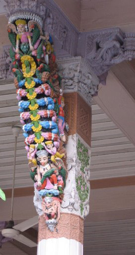 The Worlds First Swaminarayan Temple in Kalupur Ahmedabad Gujarat India. Established by Shree Swaminarayan Bhagwan Himself.